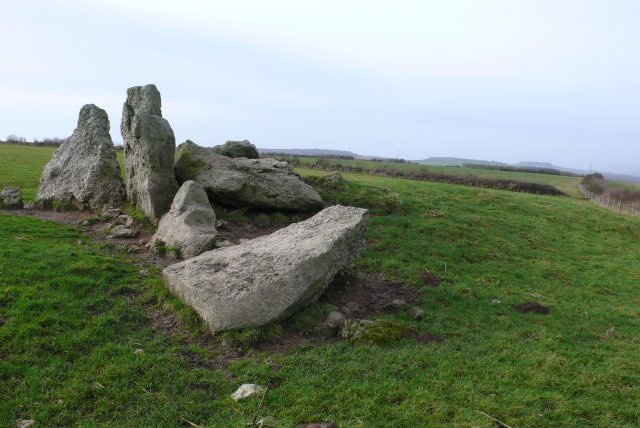 The Grey Mare and Her Colts Long Barrow. This neolithic chambered long barrow located high on the Dorset chalk downs near Kingston Russell is only have a mile away from the stone circle of that name.This is the view from the eastern corner along the length of the barrow which runs SE-NW. The two largest stone form mthepart of the chamber at the SE end.